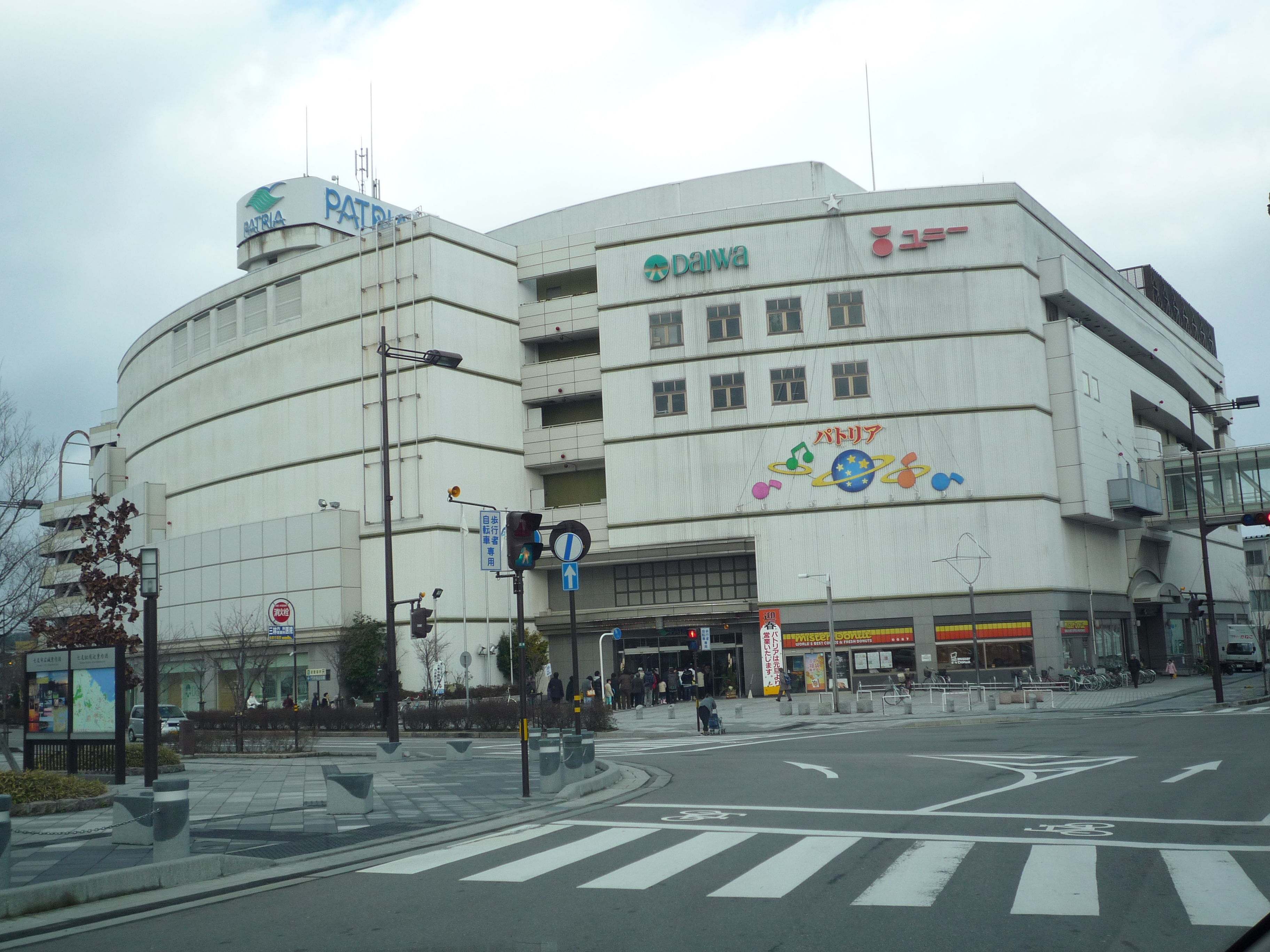 Nanao Patria is a department store in Ishikawa prefecture, Japan.